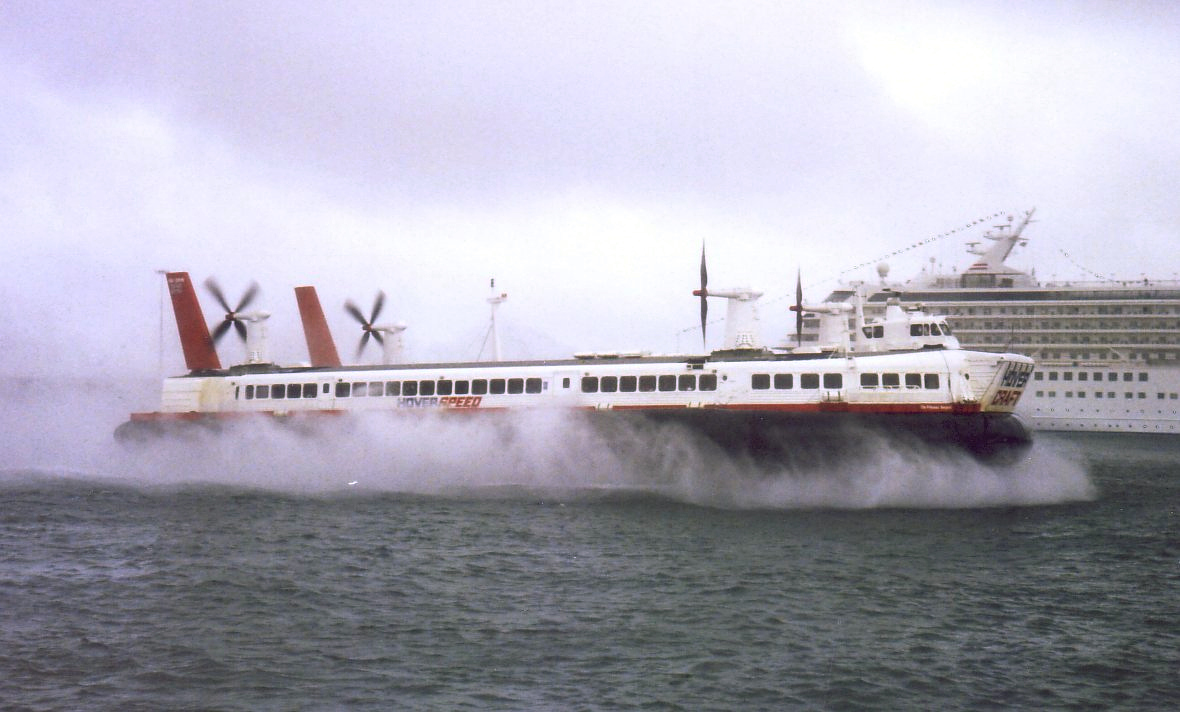 SNR4 Hovercraft The Princess Margaret at the mouth of the Western Docks in Dover.